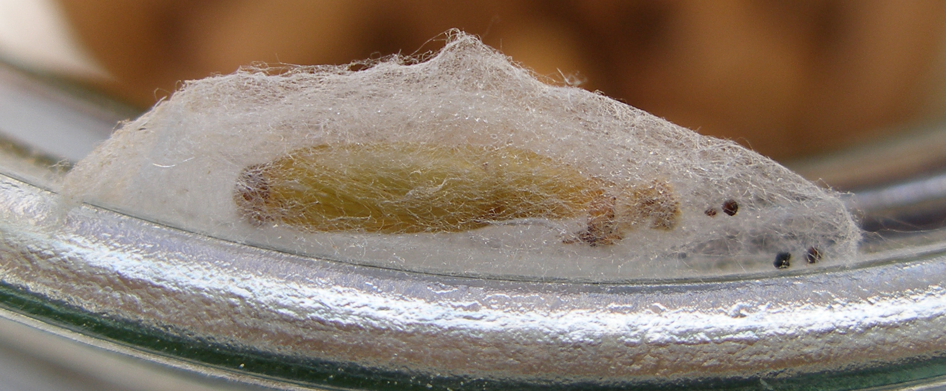 Coocoon of some flying insect. The larvae has placed itself just under the lid of a glass filled with almonds. The coocoon was alive while being photographed. Picture taken in Leikanger, Sogn og fjordane, Norway.